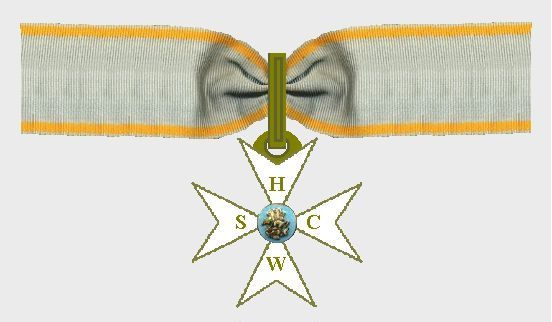 Knight´s Cross on the neckband